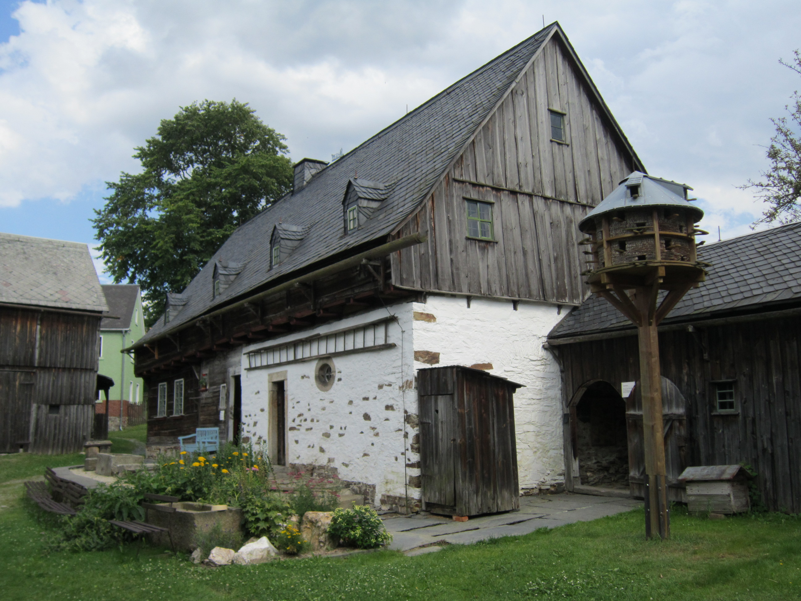 Landwüst open air museum